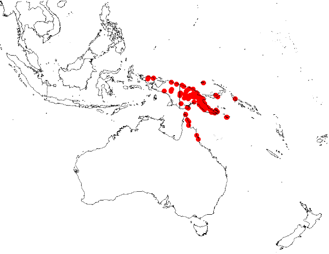 Decaisnina hollrungii Occurrence data from AVH downloaded 24 February 2019 using